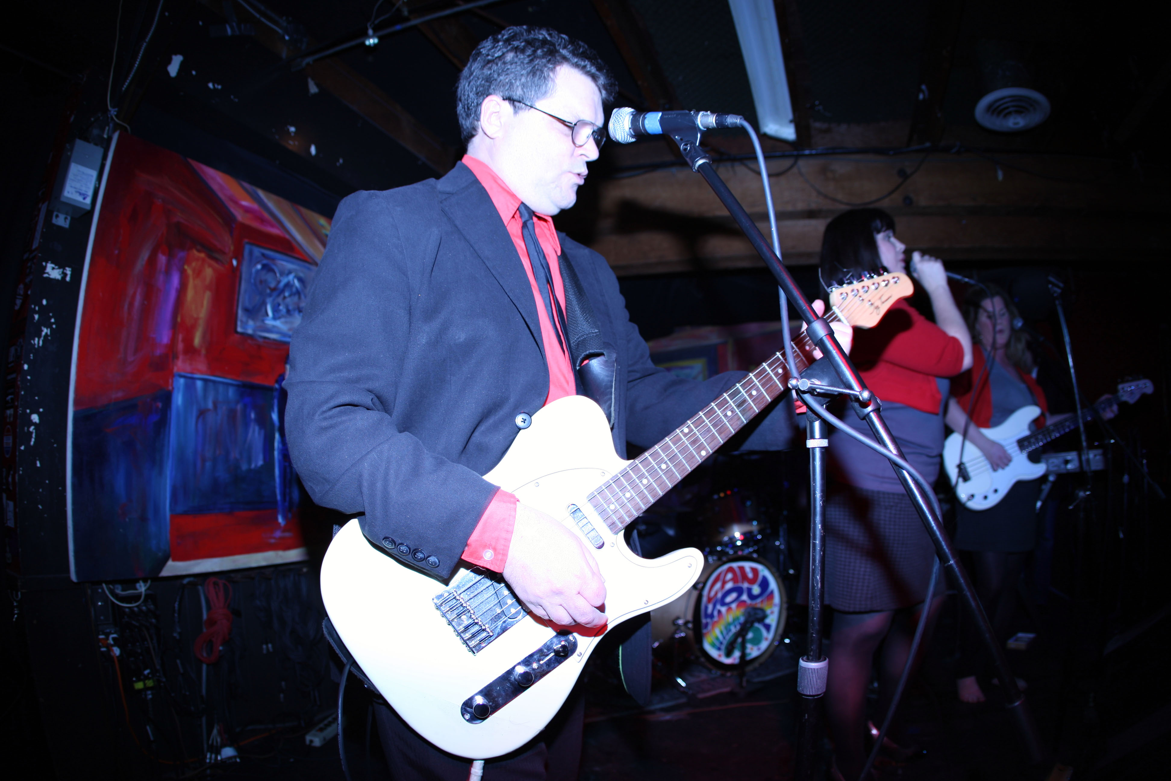 Peter Bagge with Can You Imagine?